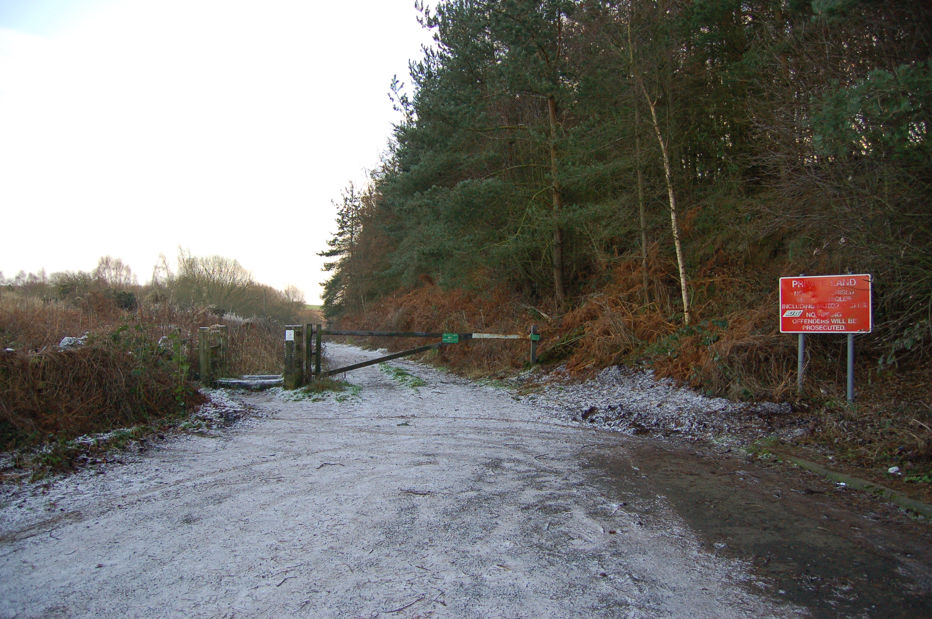 St. Cuthbert's Road, looking south-east towards the former site of Bowes Bridge MPD on the Tanfield Railway. The site of Fen House Row, known as "The Valley" or "The Hole" is on the right, just beyond the gate. Marley Hill Colliery was just around the right hand bend in the road.